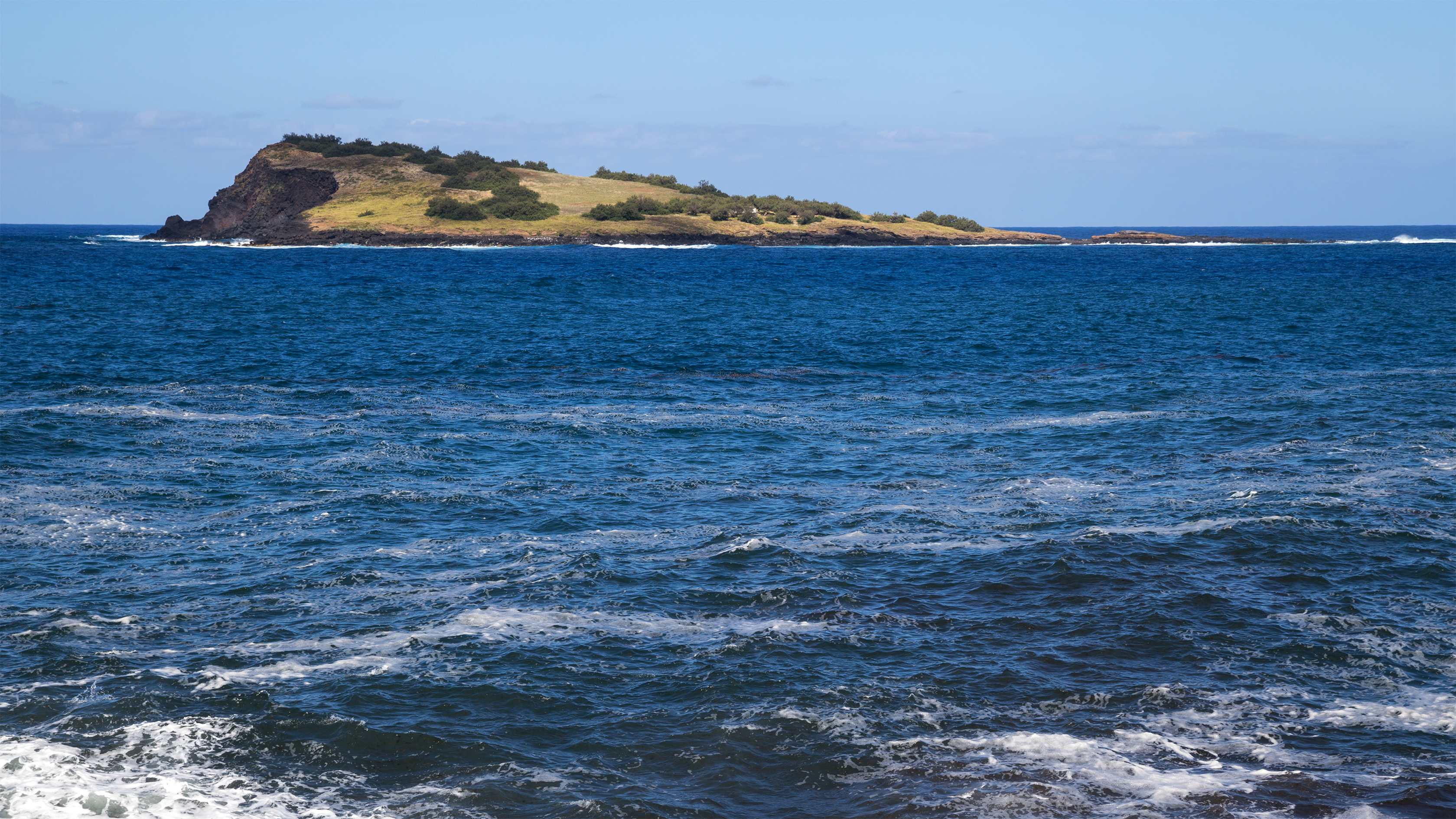 Ilhéu da Praia, a small island near Graciosa, Azores